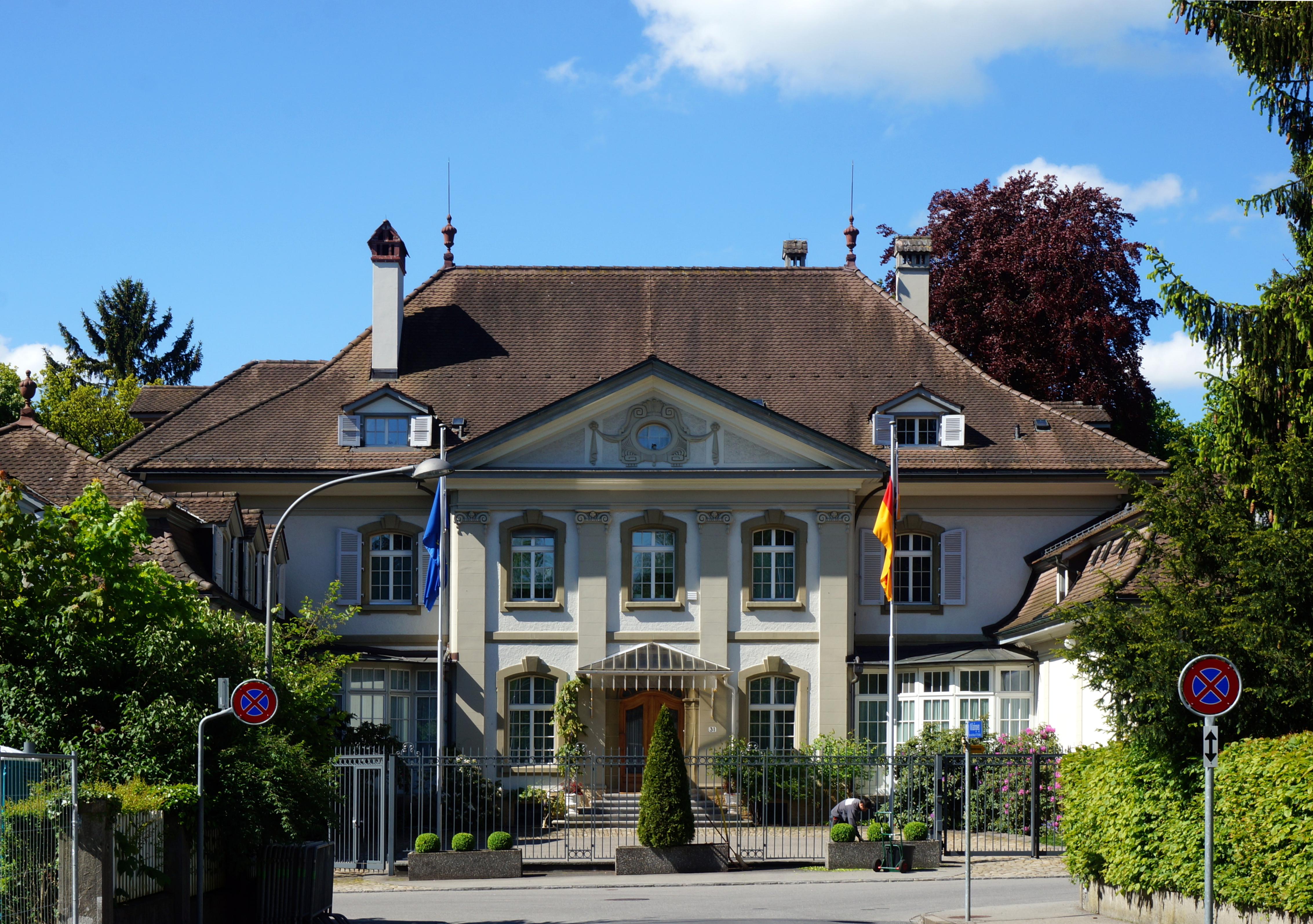 Bern, Brunnadernrain 31. German Embassy in Switzerland.